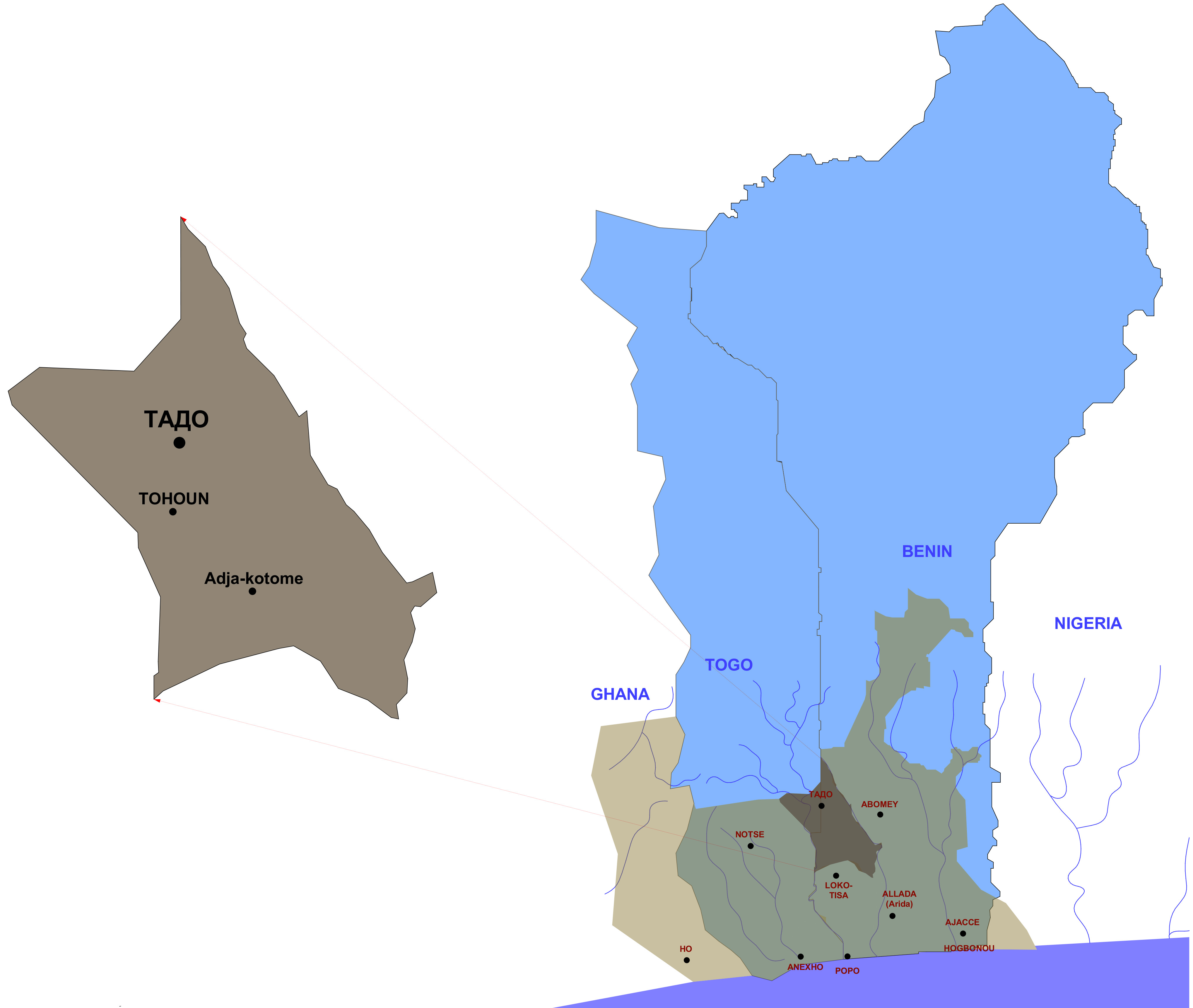 ADJA-TADO